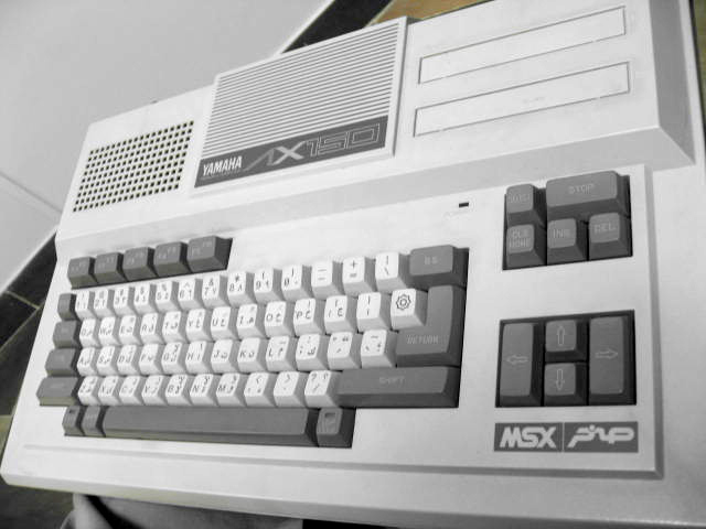 MSX COMPUTER IN ARAB STATES IN THE GULF - USED BY YAMAHA AX 120 - IT WAS FOUND IT , IT WAS NAME (( صخر - SAKHER )) .